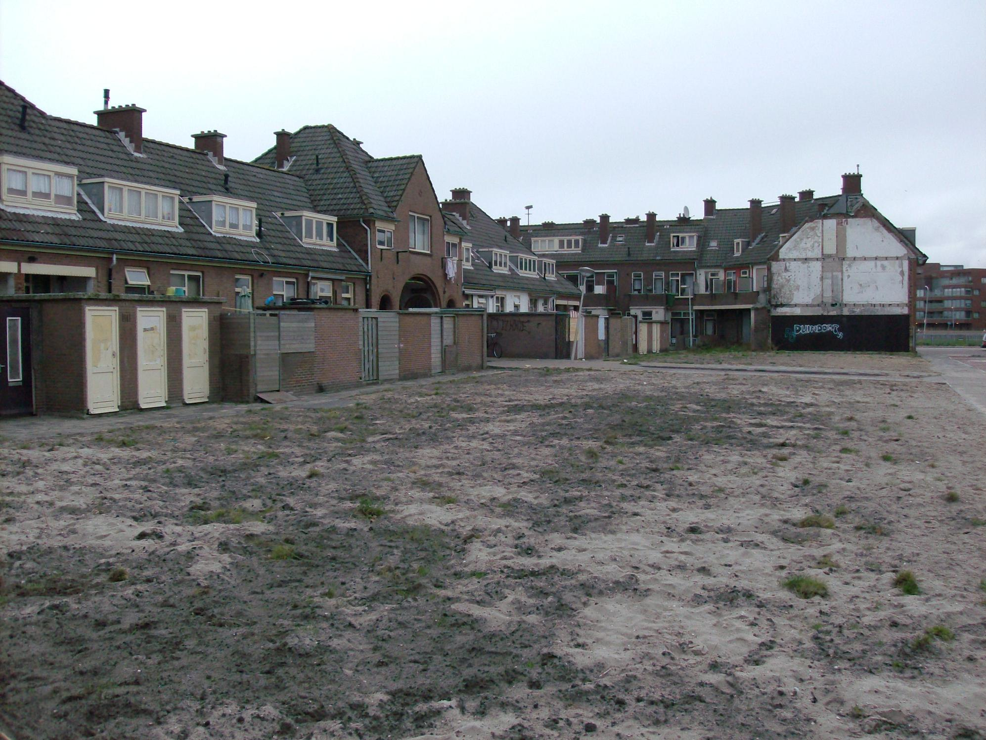 The Pluvierhof in Scheveningen (near The Hague, Netherlands), an area of urban decay and urban restructuring